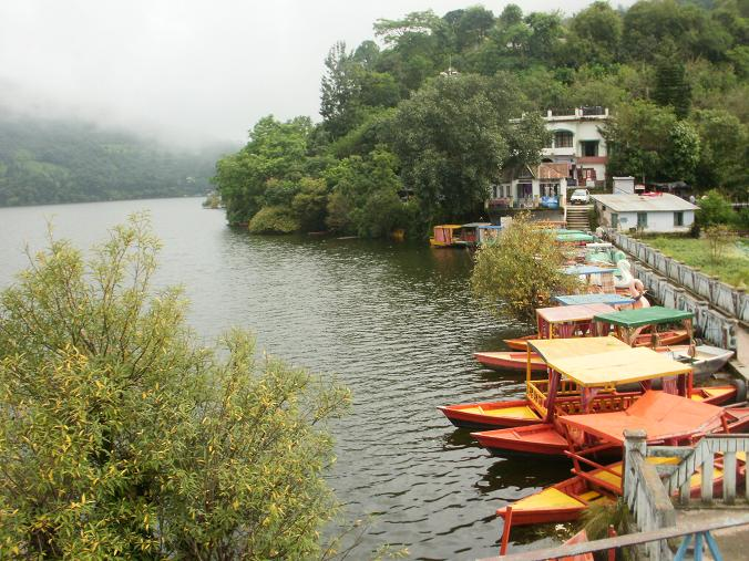 Shikara Boats in Naukuchiatal